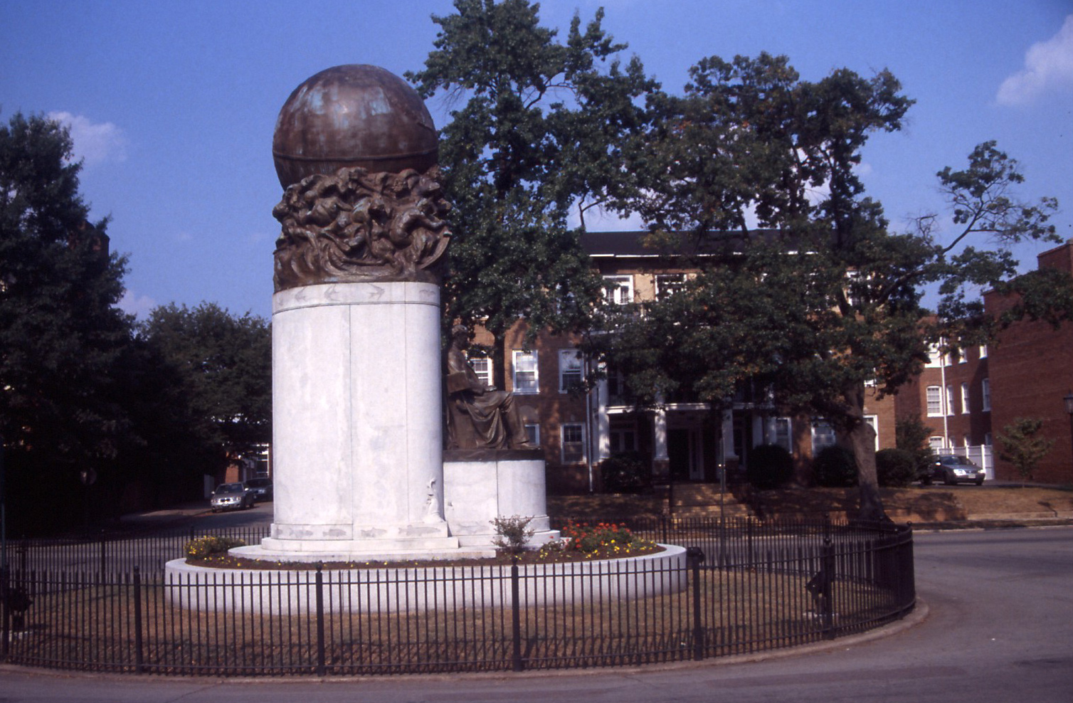 Monument to Matthew Fontaine Maury in Monument Avenue, sculpted by Frederick William Sievers Photo by Einar Einarsson Kvaran Carptrash 08:27, 14 March 2006 (UTC)